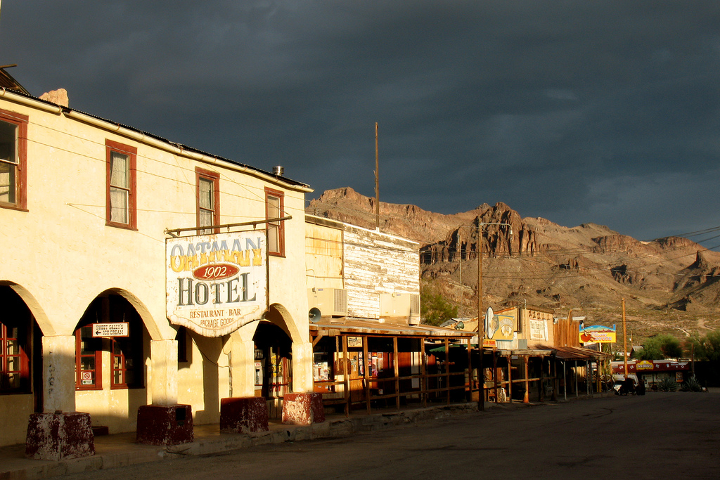 Oatman Hotel, built of adobe on Main Street, in Oatman, Arizona.